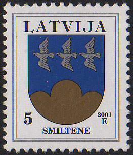 Latvian postage stamp definitive depicting the Smiltene town coat of arms.